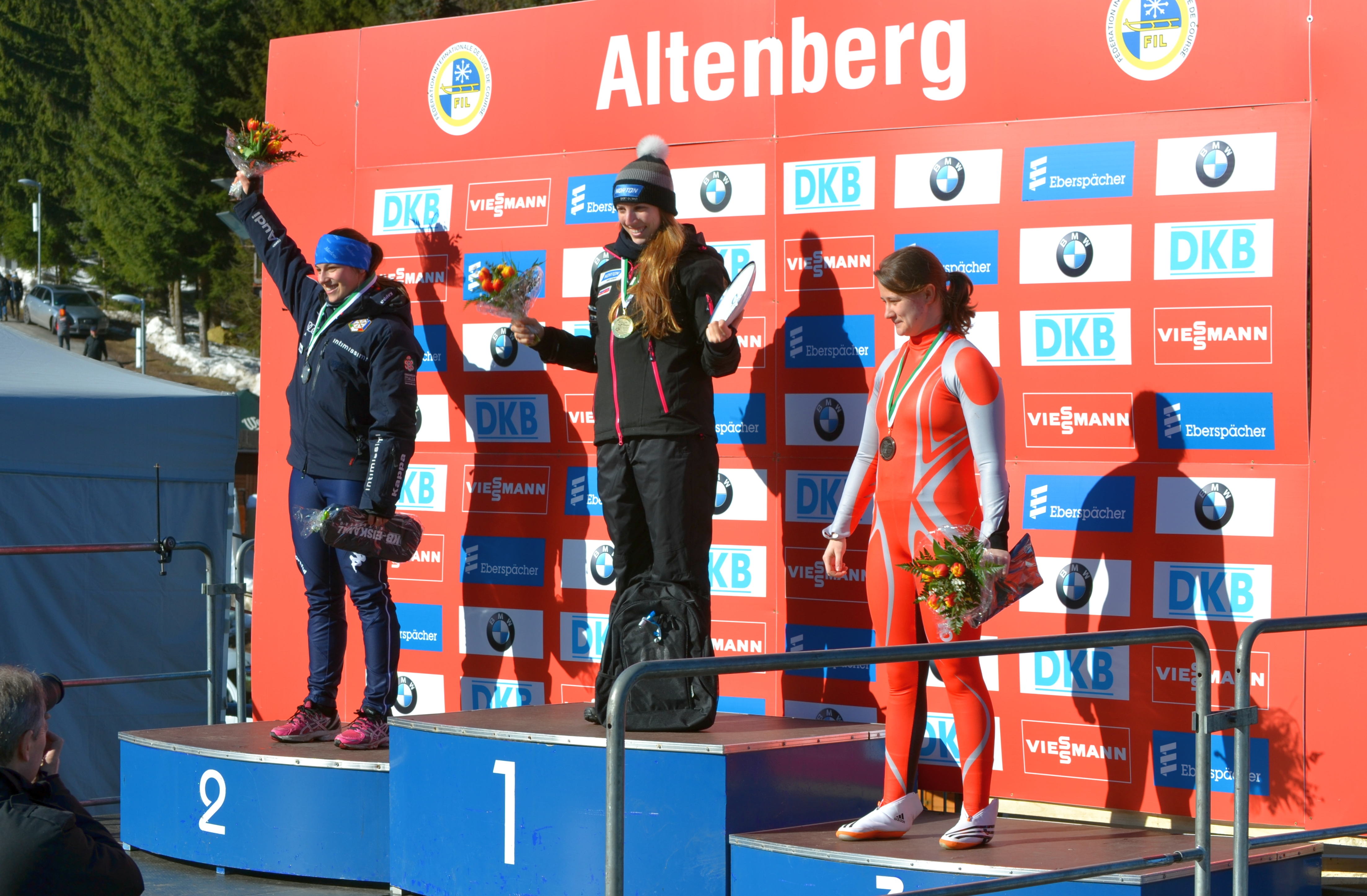 Luge world cup race season 2014/15 in Altenberg/Germany, 19th to 22nd Februar 2015. Day 2: Nations cup races.